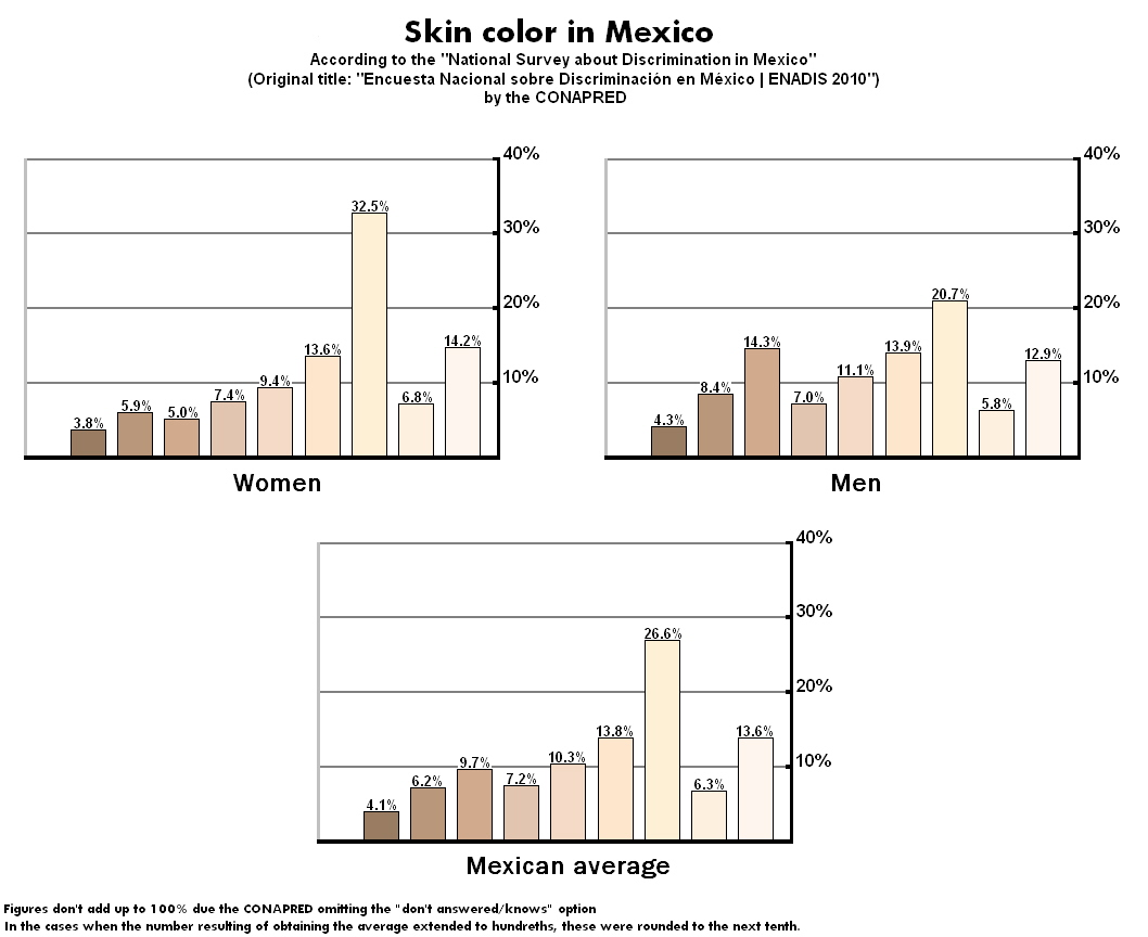 The file shows the results obtained in the "National Survey about Discrimination in Mexico 2010" on it the participants were asked to select from a chart the color that matched the best their skin color, the survey was general, there wasn't distinction of ethnicy: people of indigenous ancestry, European or white ancestry and mestizos could take part in it. While on this excercise the majority of Mexicans identified themselves with colors found in the lighter side of the catalog, curiously when asked how would they call their skin tone, the majority answered "moreno" (dark/cooper skinned). Methodology: The survey was performed in 13,751 homes, providing information about 52 thousand 95 persons. The homes were selected in the 32 federal entities of the country­, on 301 municipalities and one thousand 359 starting points. The sample used was randomly selected, multistaged, stratified by conglomerates and, in general, the primary sample units were selected with a probability that is proportional to the general population. The results obtained allow the comparison of eleven geographical regions, ten highly populated metropolitan zones, four types of locality and four border zones in the country. Said characteristics allowed to obtain general estimations that, considering a 95% of reliability, have a maximun error margin of +/- 1.1 percentual points.